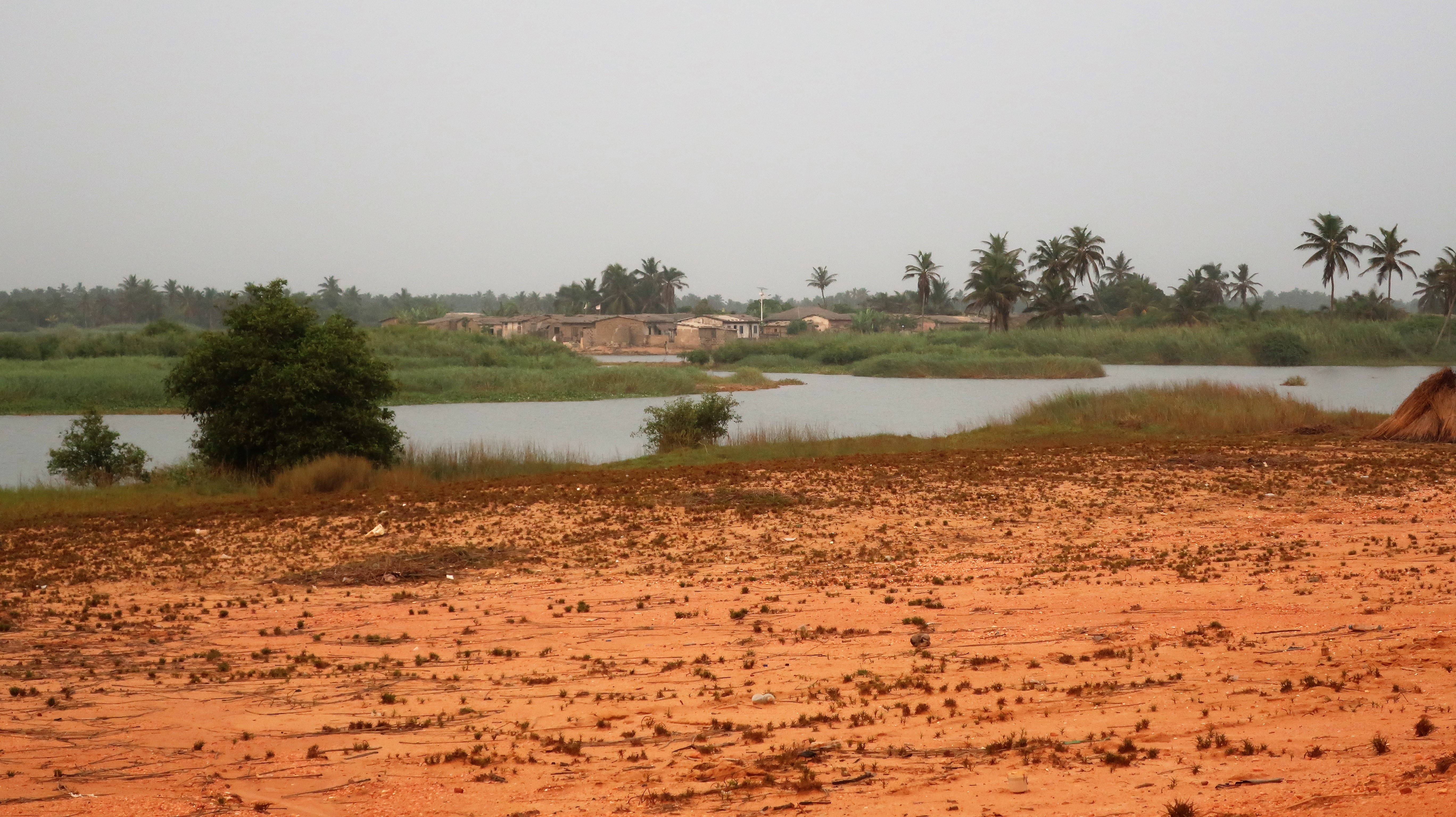 Beach, lagoon, houses, palm-trees